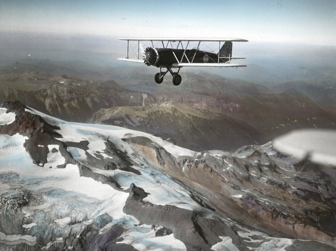 Boeing Model 40 over mountains (probably the Cascade Range) circa 1930s. Boeing Air Transport (later United Airlines) logo.Item 78077, City Light Glass Lantern Slides (Record Series 1204-03), Seattle Municipal Archives.